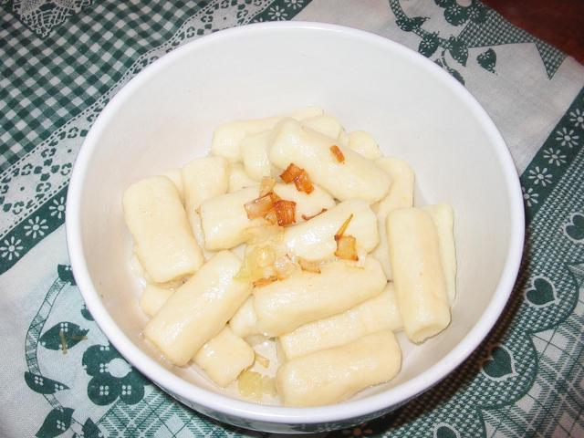 Ukrainian "palyushky" (sticks)